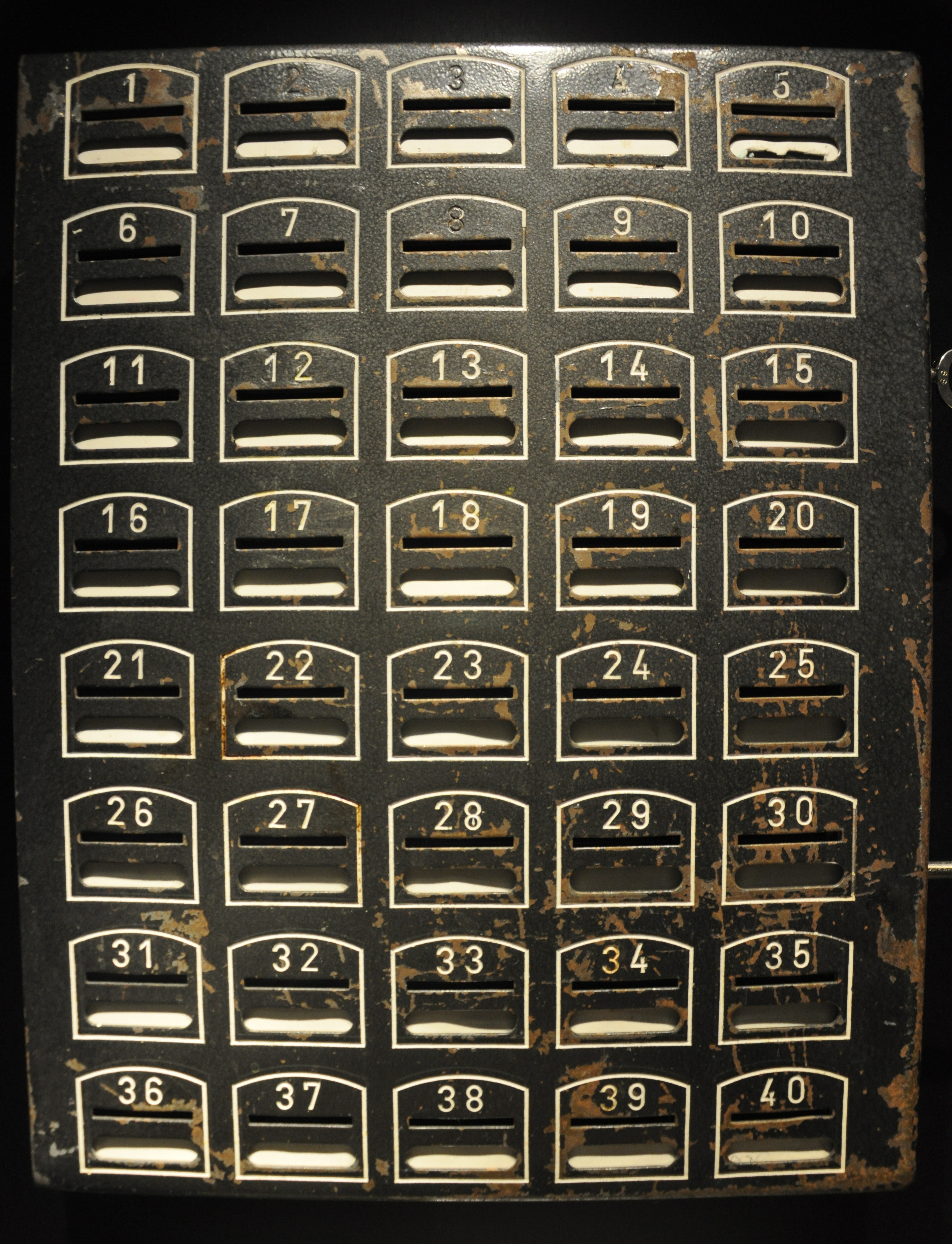 Schulsparkasse (aus Baindt), Wirtschaftsmuseum Ravensburg Wirtschaftsmuseum LocationRavensburg, GermanyCoordinates47° 46′ 49″ N, 9° 36′ 55″ E Established28 October 2012Web page control : Q2585923